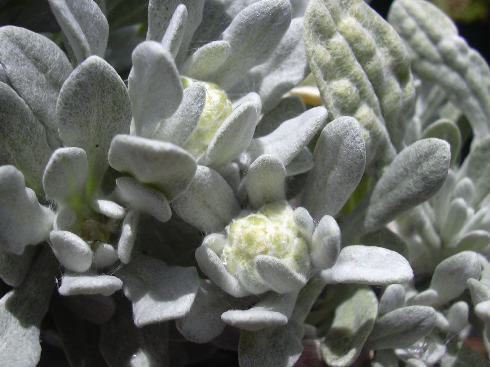 Gnaphalium sandwicensium (leaves from Papanalahoa Pt). Location: Maui, State nursery Kahului